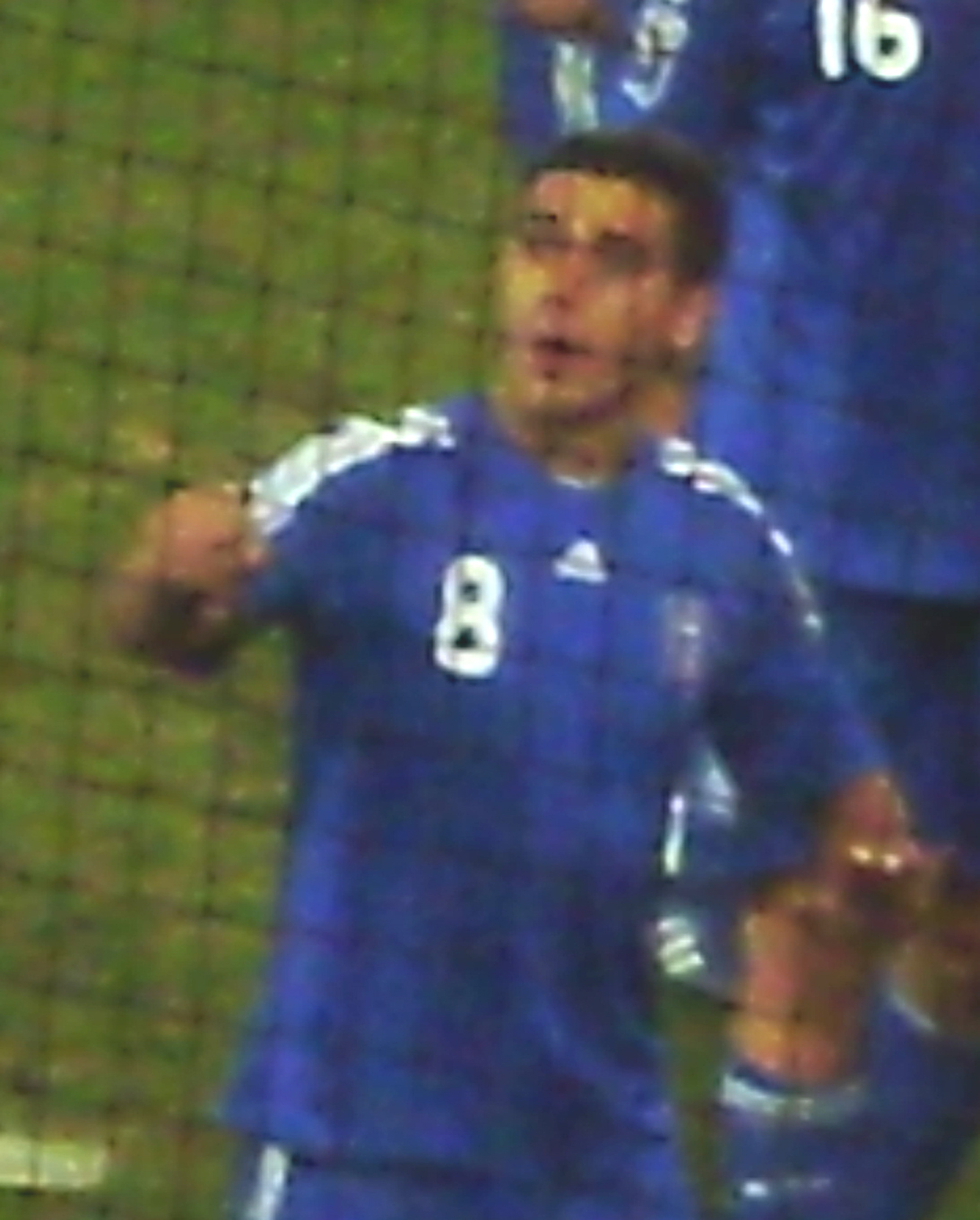 Kostas Katsouranis Greece vs Moldova